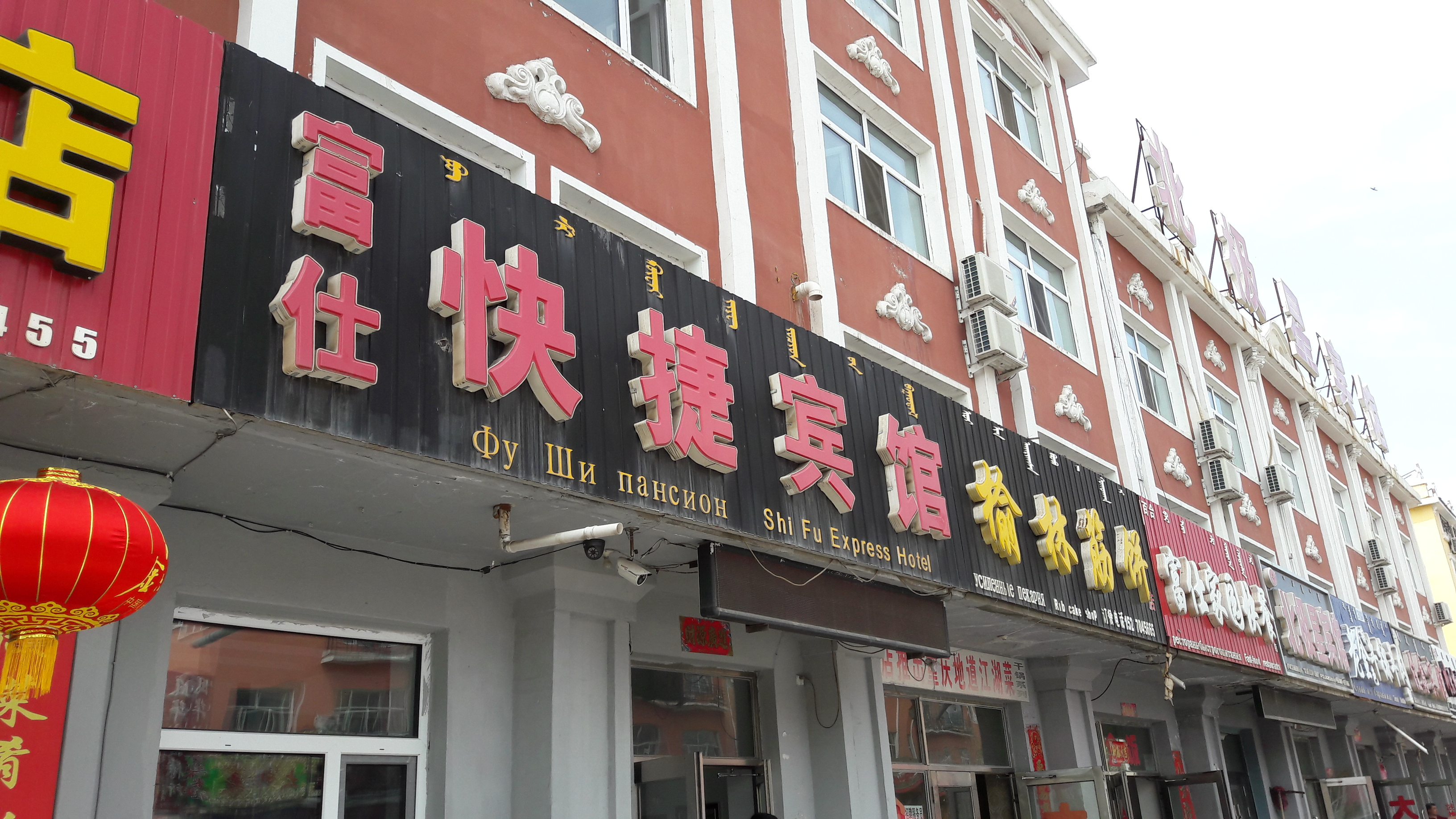 Signs in four languages in Ergun, Hulunbuir City, Inner Mongolia, china. Mongolian in traditional script, Chinese hanzi, cyrillic russian, and pinyin and english mix in latin script.